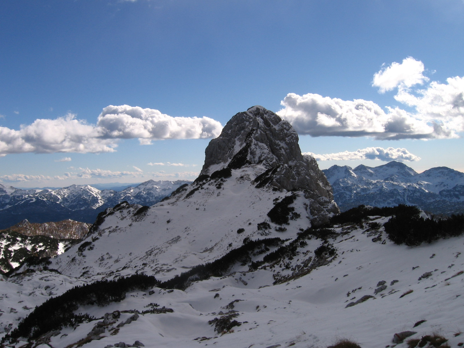 Mt. Velika Tičarica (2,091 m) above the Valley of Triglav lakes (north side). Slovenia.